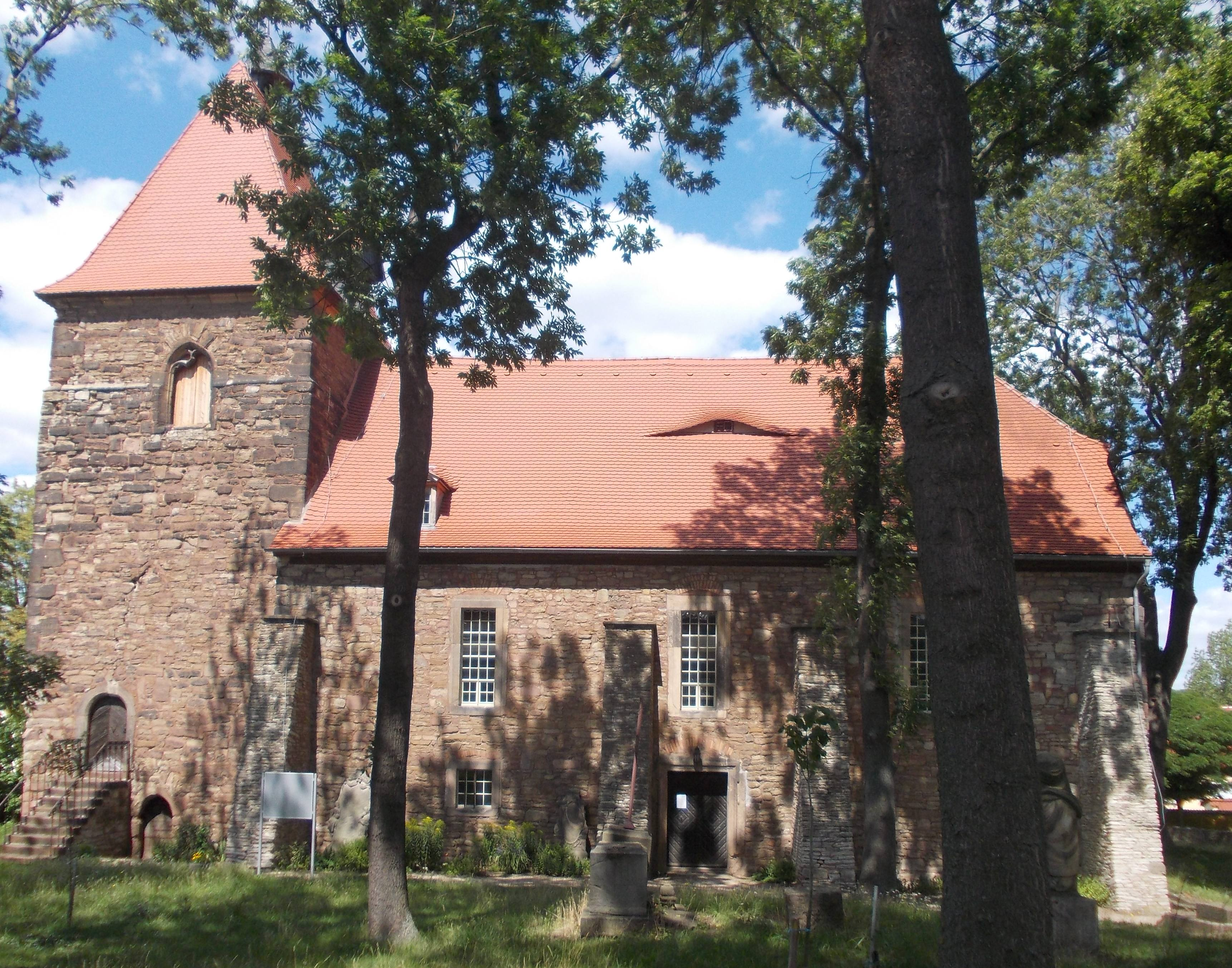 St. Martin's Church in Memleben (Kaiserpfalz, district: Burgenlandkreis, Saxony-Anhalt)